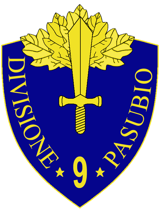 9a Divisione Fanteria Pasubio insignia, Regio Esercito, Italy, WWII